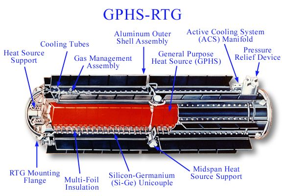 A cutdrawing of an GPHS-RTG that are used for Galileo, Ulysses, Cassini-Huygens and New Horizons space probes.